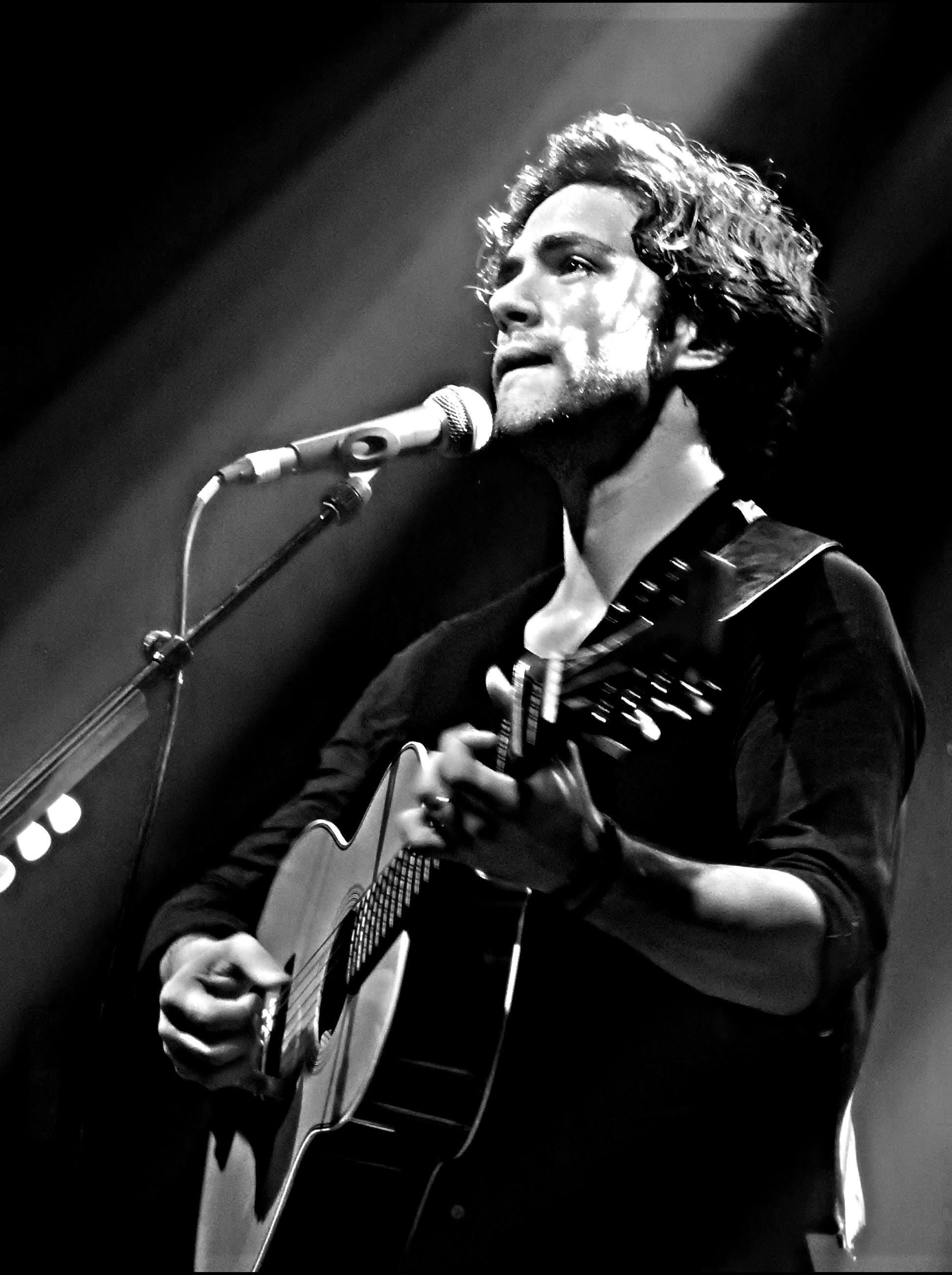 Jack Savoretti, Shepherds Bush Empire